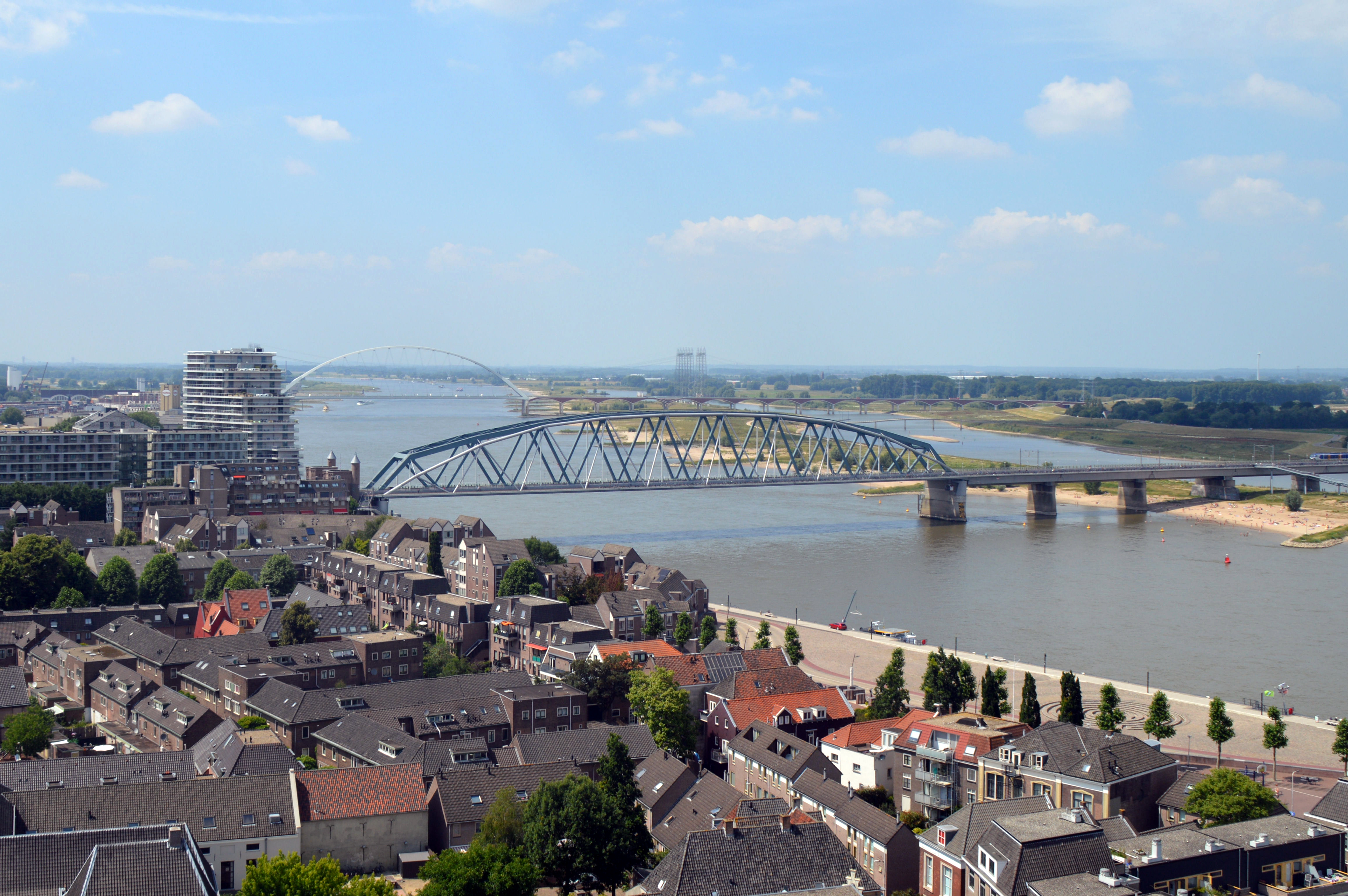 Nijmegen railway bridge. River Waal. in the back the Oversteek bridge Seen from the Stevenskerk